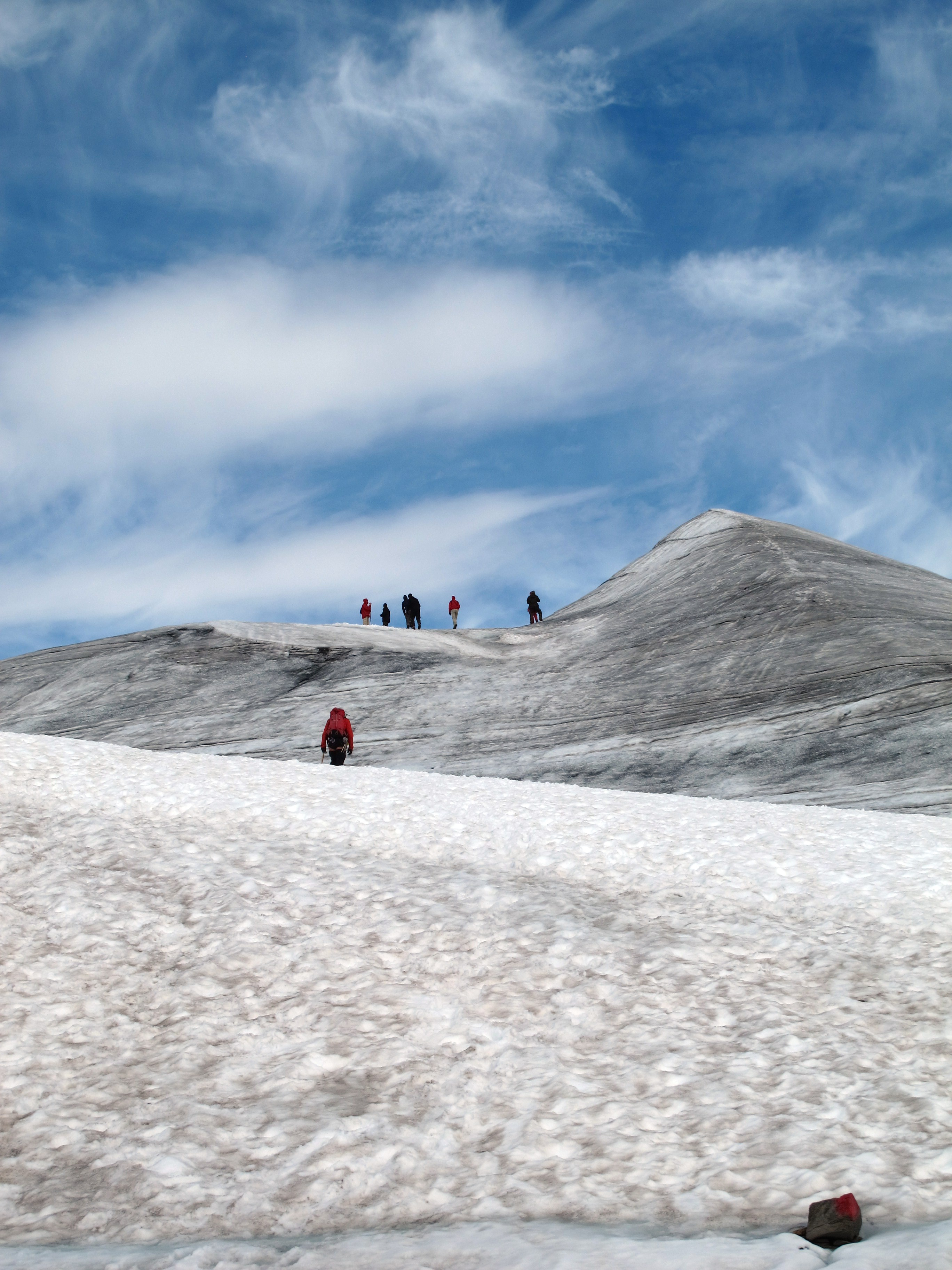 Kebnekaise, southern peak